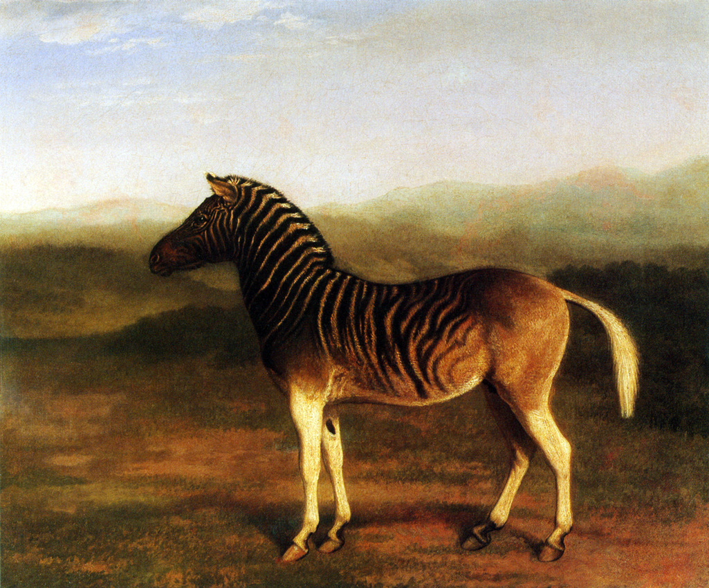 Painted from a live specimen at the Royal College of Surgeons. [1]